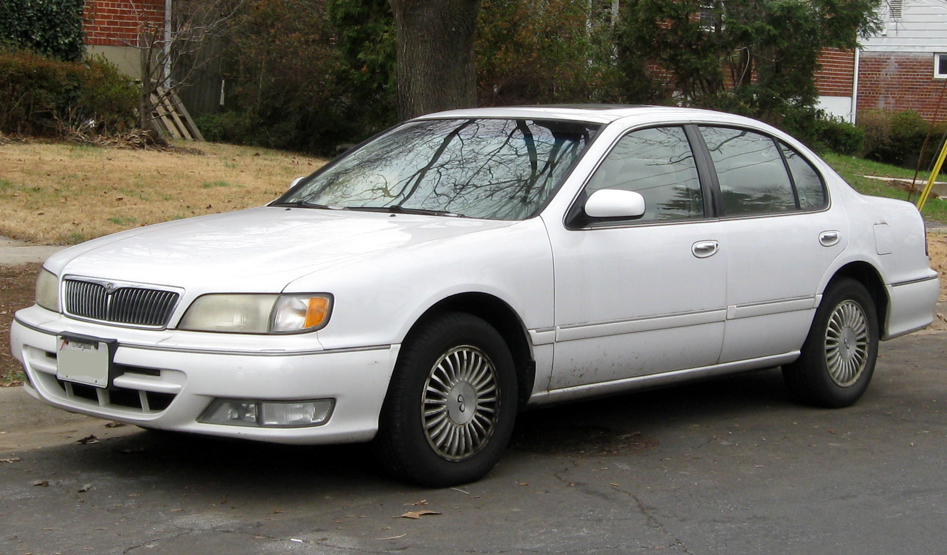 1996-1999 Infiniti I30 photographed in Rockville, Maryland, USA.